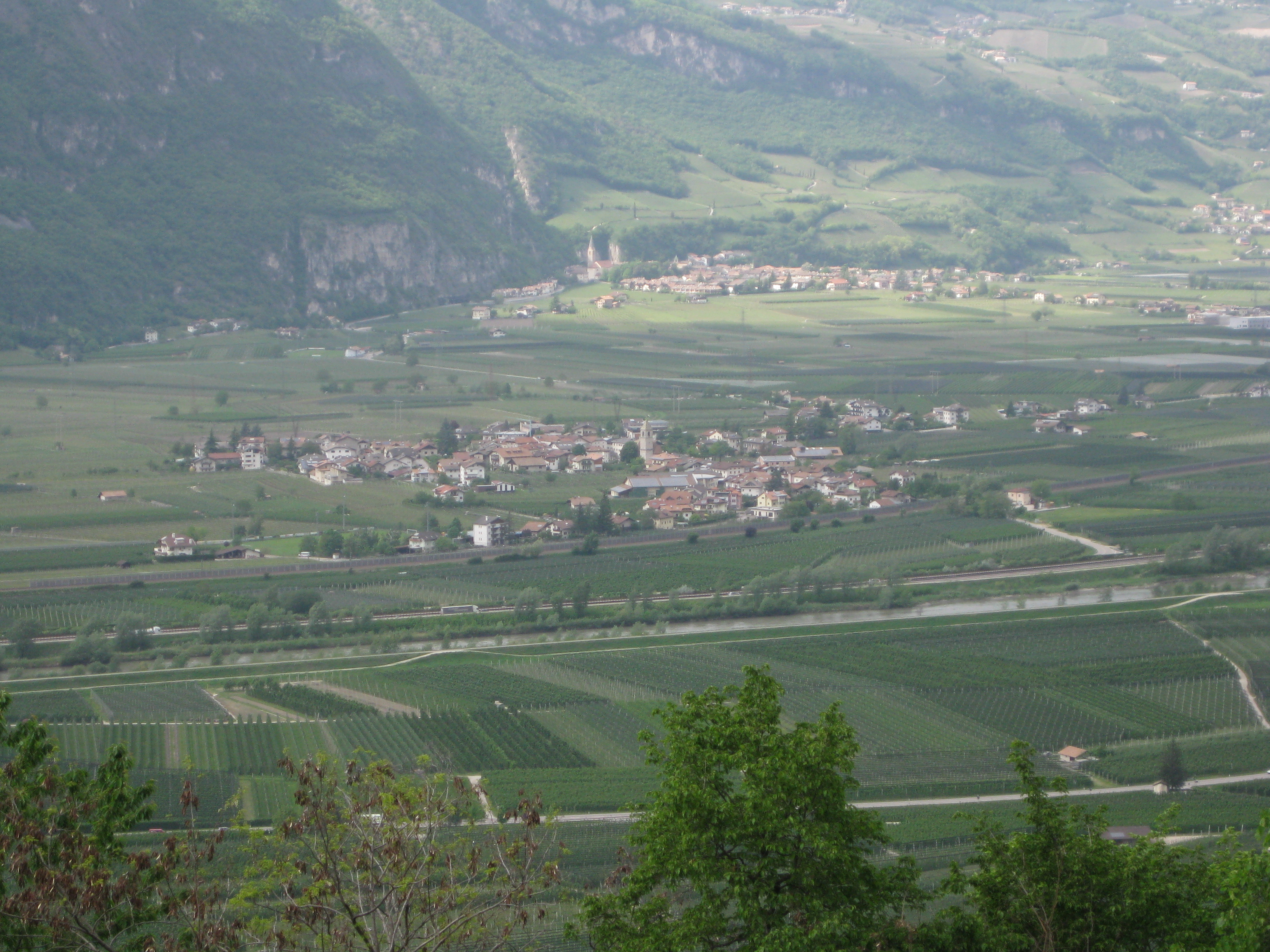 Kurtinig and Margreid (in the background), two municipalities in South Tyrol